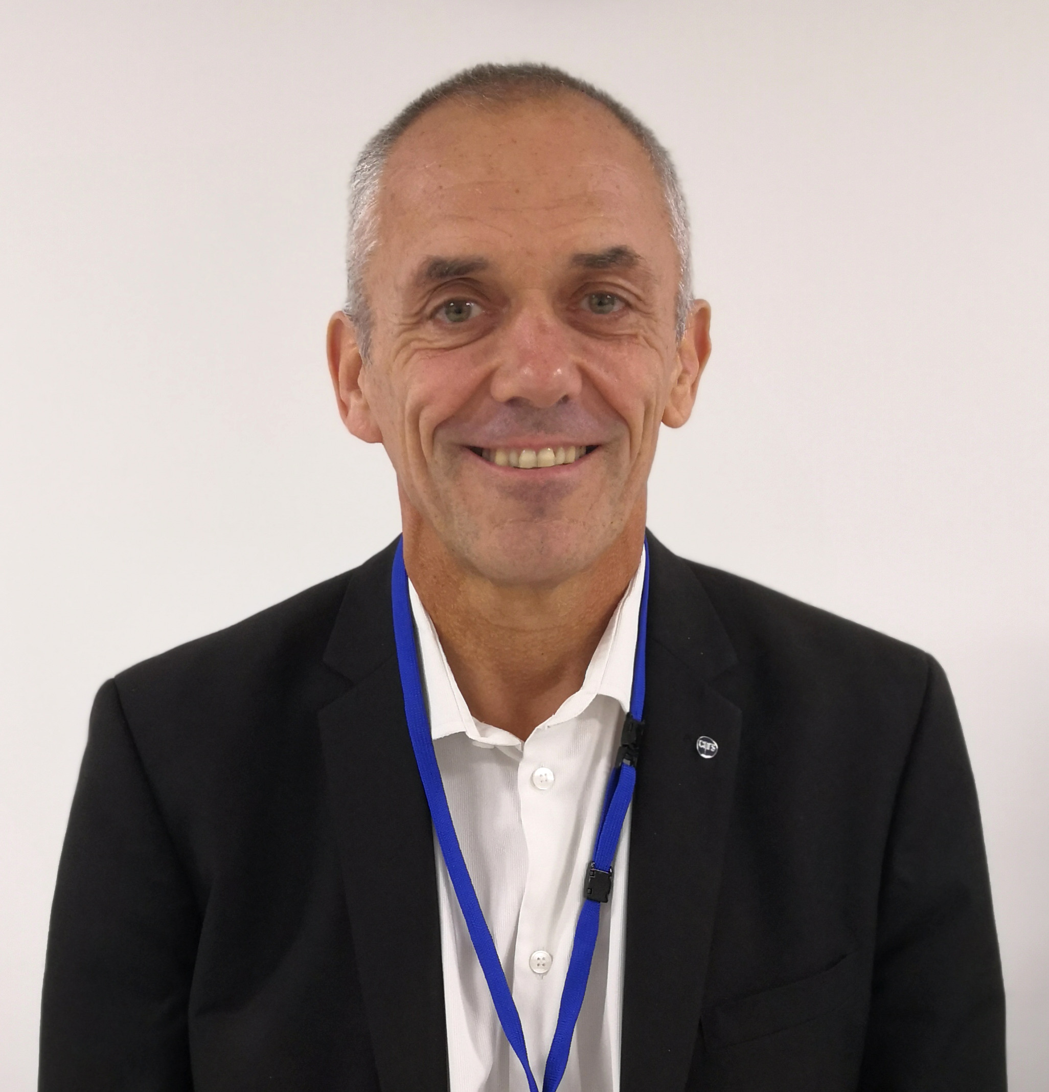 Antoine Petit, computer scientist and CEO of CNRS in the seminar in celebration of The 70th Anniversary & The 80th Anniversary of CNRS, organized by IIS, U-Tokyo, and taking place at The National Graduate Institute for Policy Studies (GRIPS), Tokyo, Japan